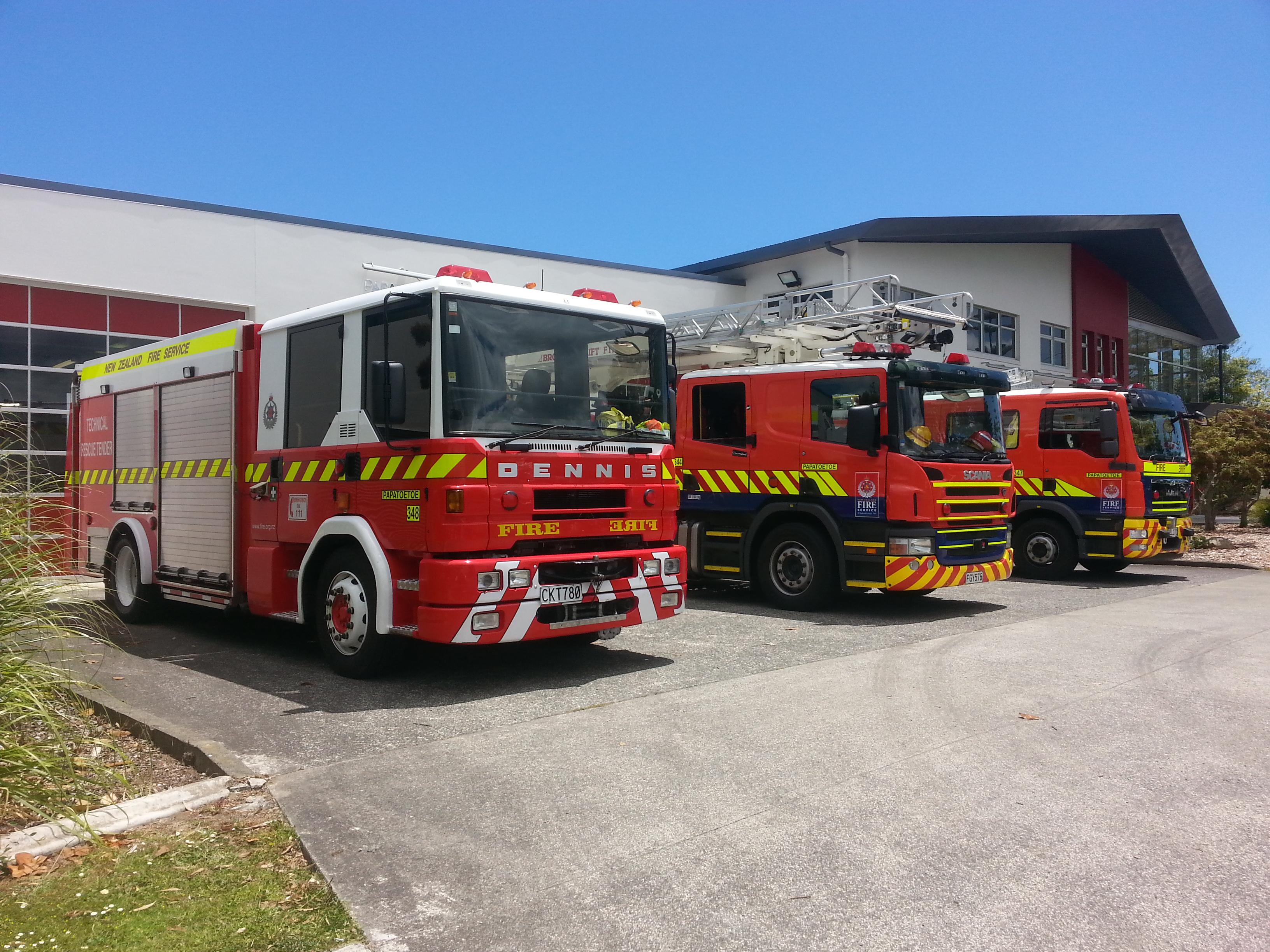 (from left) PAPA348, PAPA344 and PAPA347 parked up for a morning photoshoot.